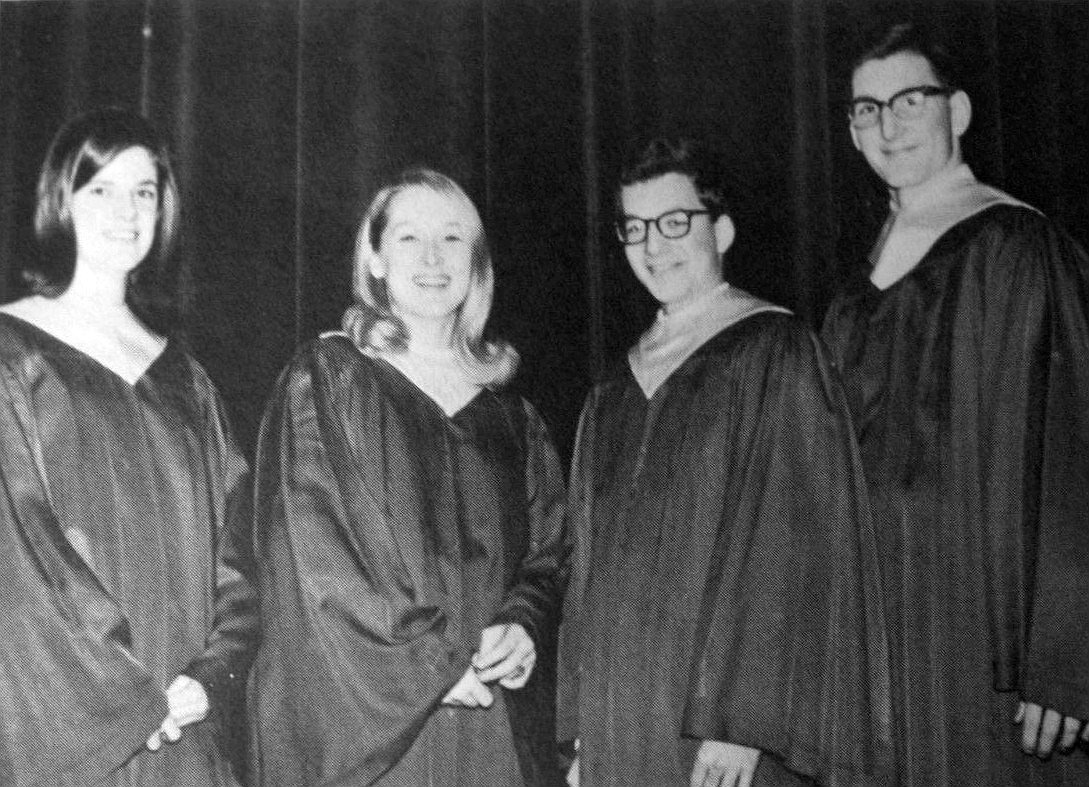 Photo of Meryl Streep as vice-president of the chorus from the 1966 Bernards High School yearbook, The Bernardian. This was in her junior year of high school.